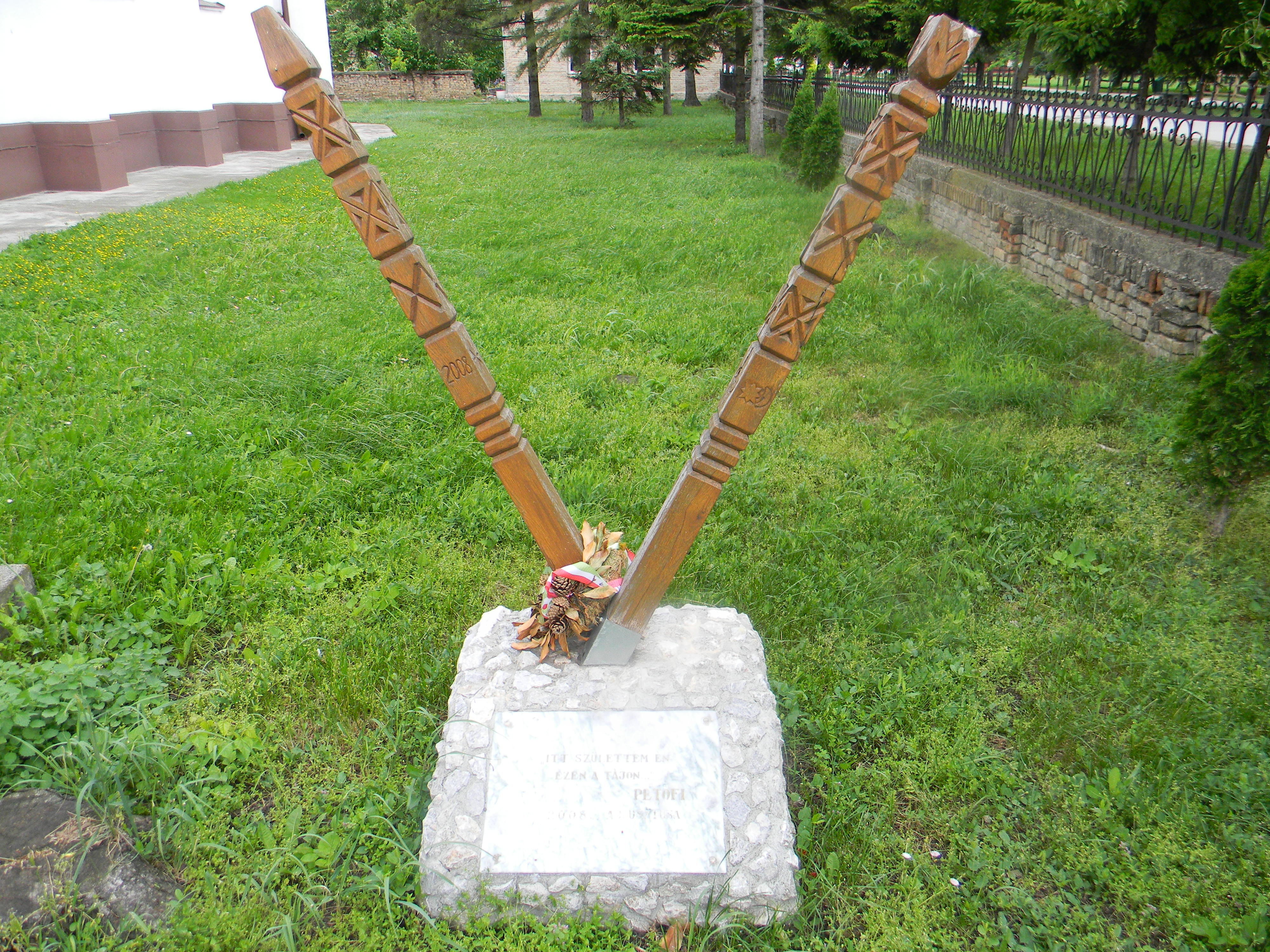 Kopjafa memorial in Church yard in Skorenovac, Serbia